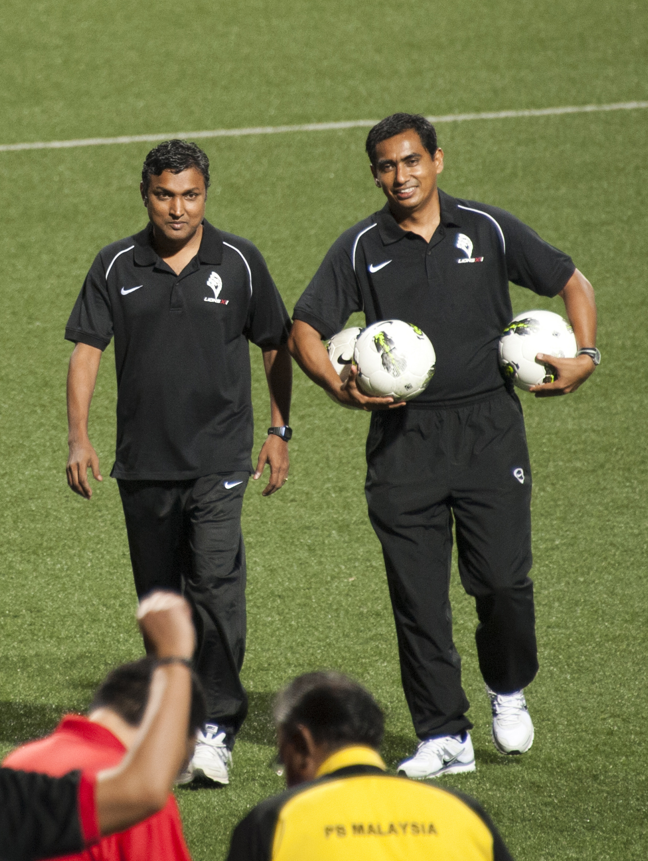 LionsXII head coach V. Sundramoorthy and his assistant Kadir Yahaya during their team's match against Kelantan FA during the 2012 Malaysian Super League at Jalan Besar Stadium, Singapore.